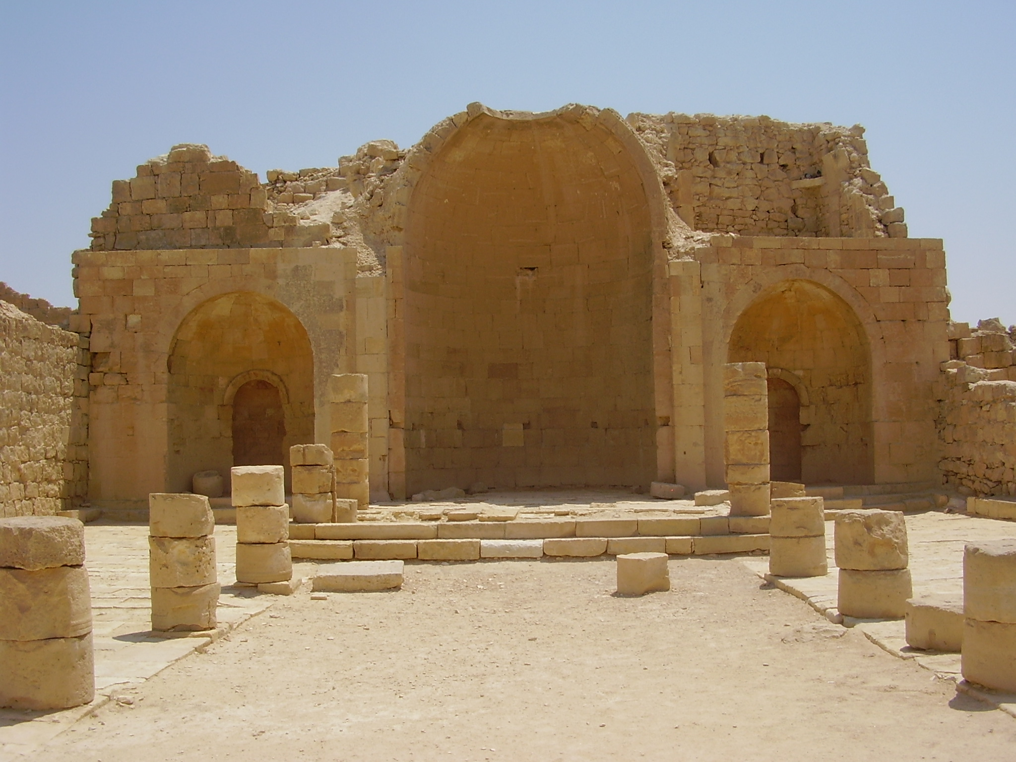 Southern church in Shivta